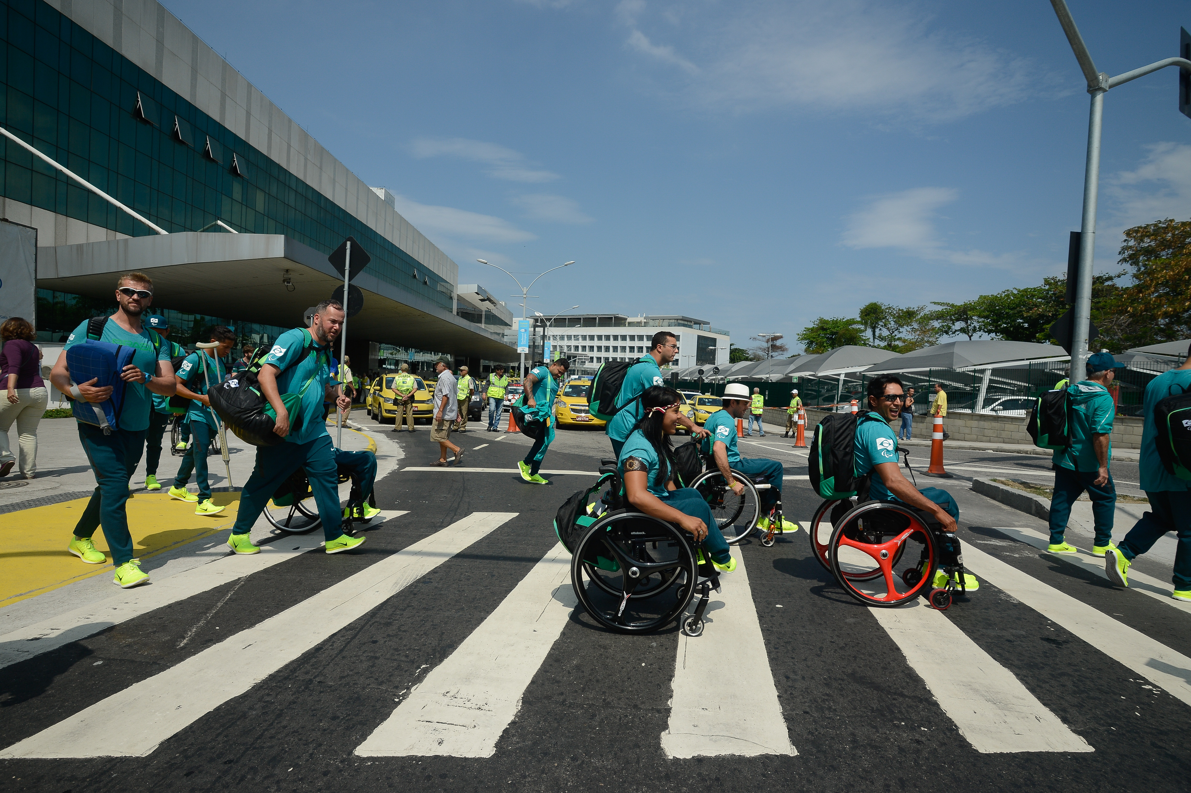 A group of Brazil athletes on their way to the 2016 Summer Paralympics: After arrival at Airport (in the left), they go to an organized group photo near the Amanhã Museum with a new VLT tramway of the city of Rio de Janeiro.